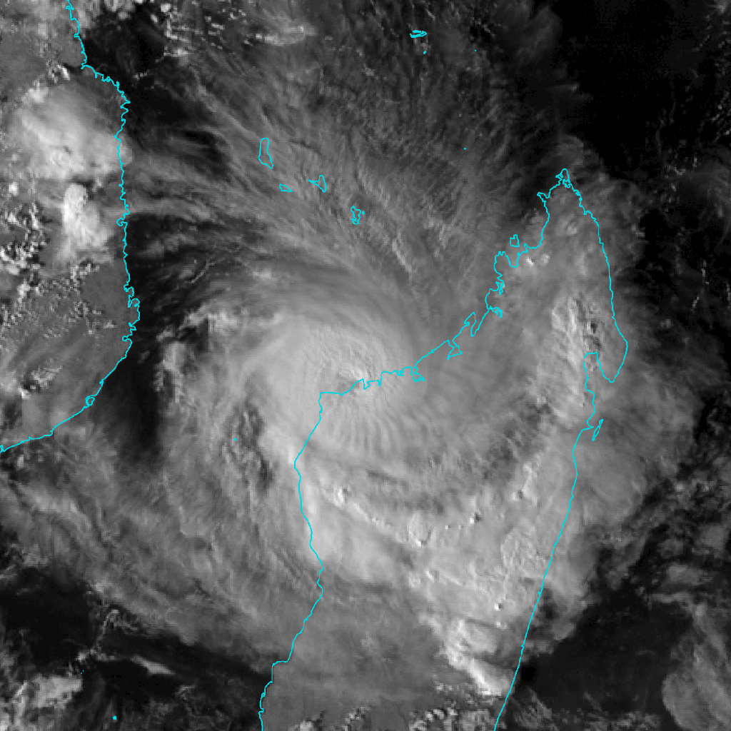 Meteosat-8 satellite image of Cyclone Belna near landfall on northwestern Madagascar at 14:00 UTC on 9 December.